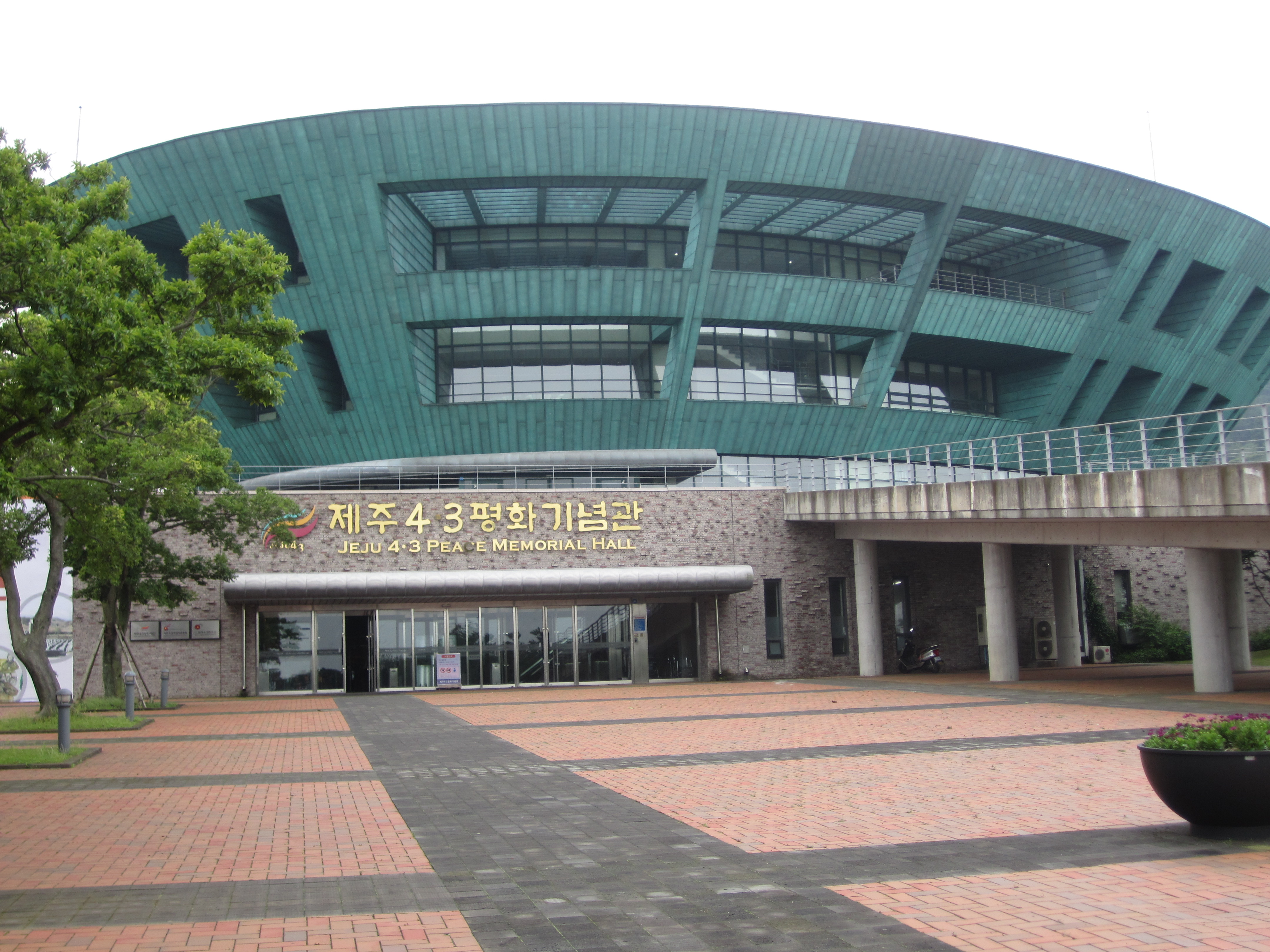 This shows the front entrance of the building.